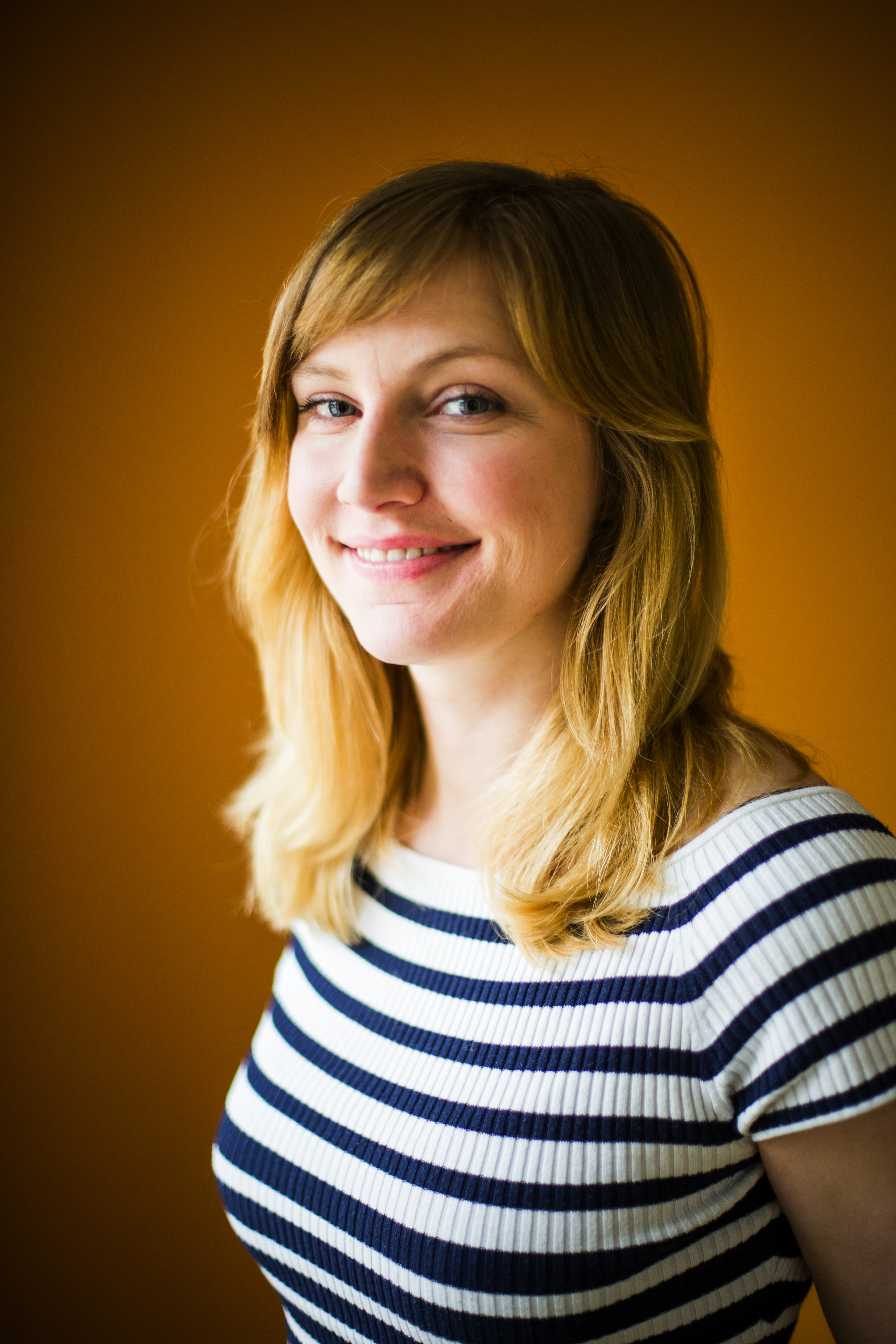 Mari Eifring, Party Secretary of the Norwegian Red Party in 2016.